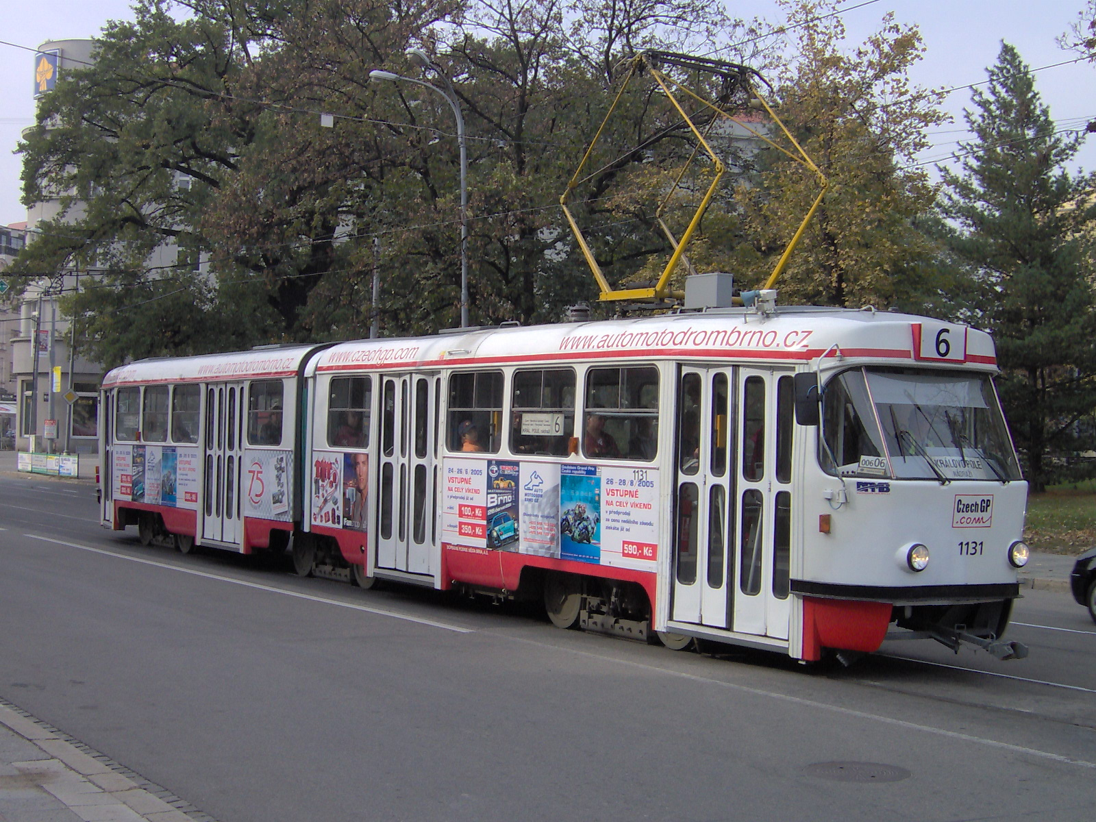 K2YU tram in Brno